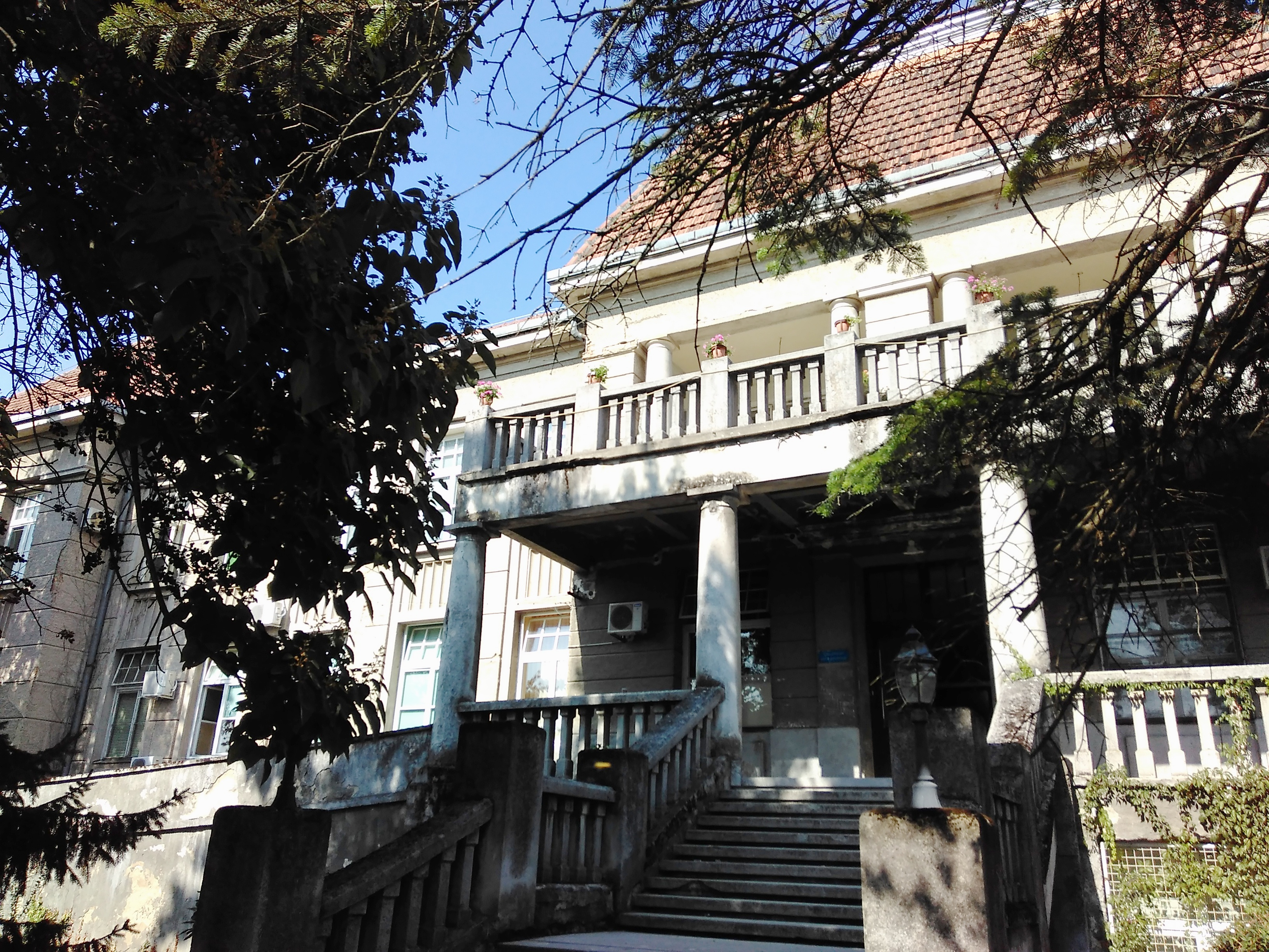 Old hospital in Bjelovar, Croatia. This is a a photo of a cultural heritage in Croatia with ID:Z-2921